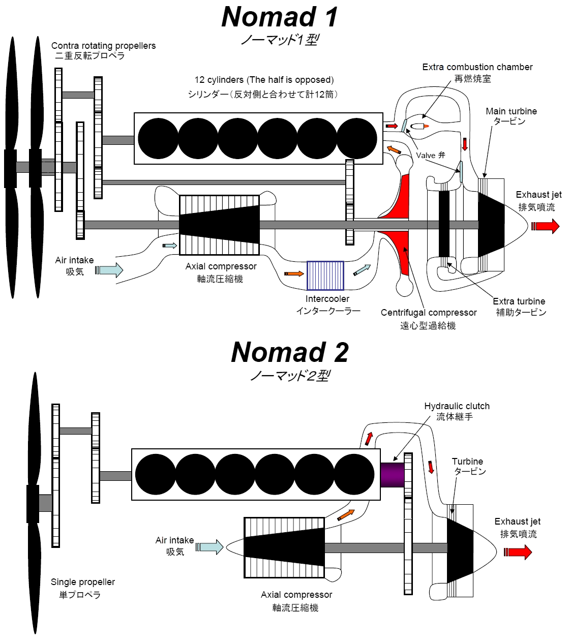 For explanation about the system of Nomad1 and Nomad2